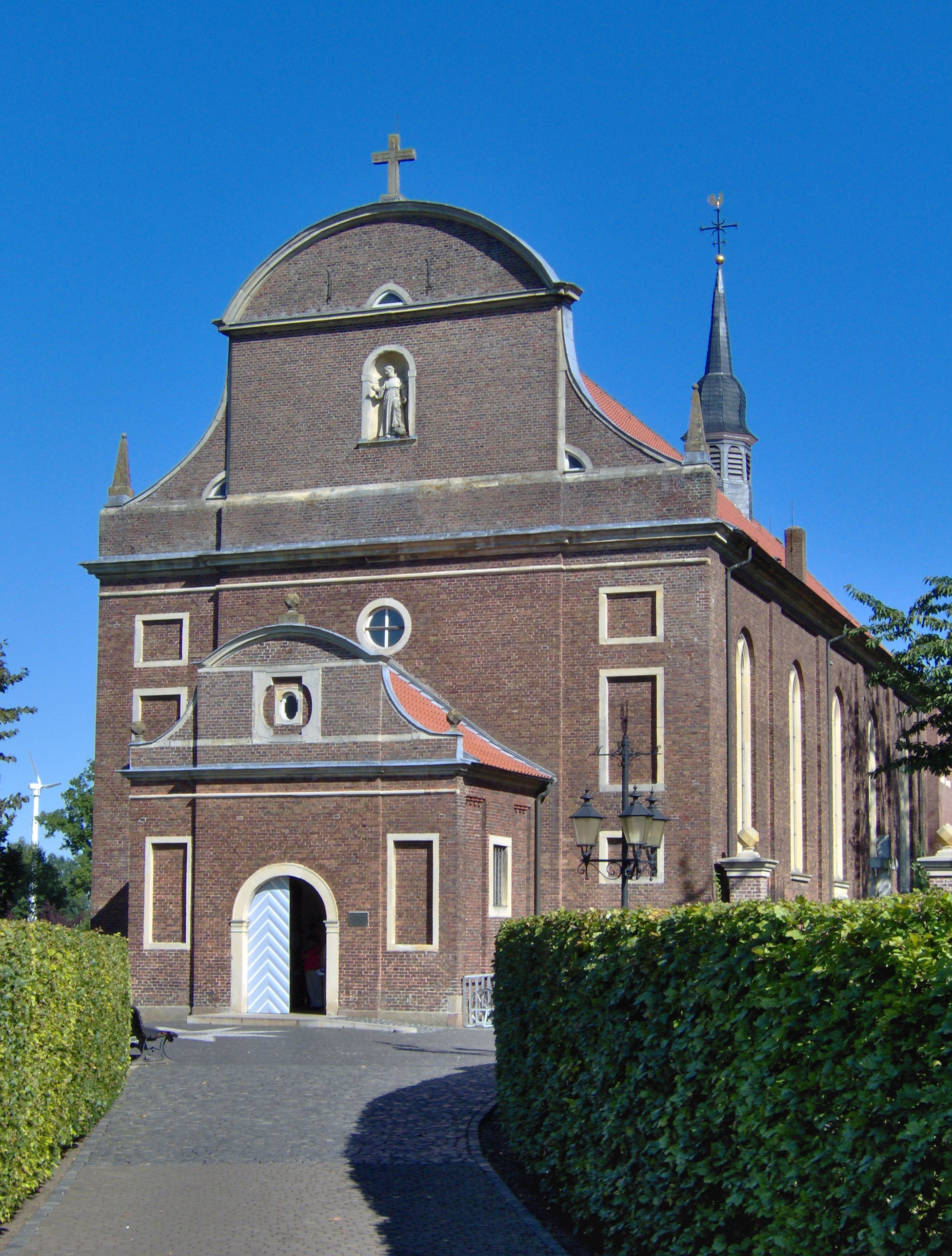 The catholic church, the Sankt Franziskuskirche of Zwillbrock, a hamlet in the municipality of Vreden in North Rhine-Westphalia, Germany